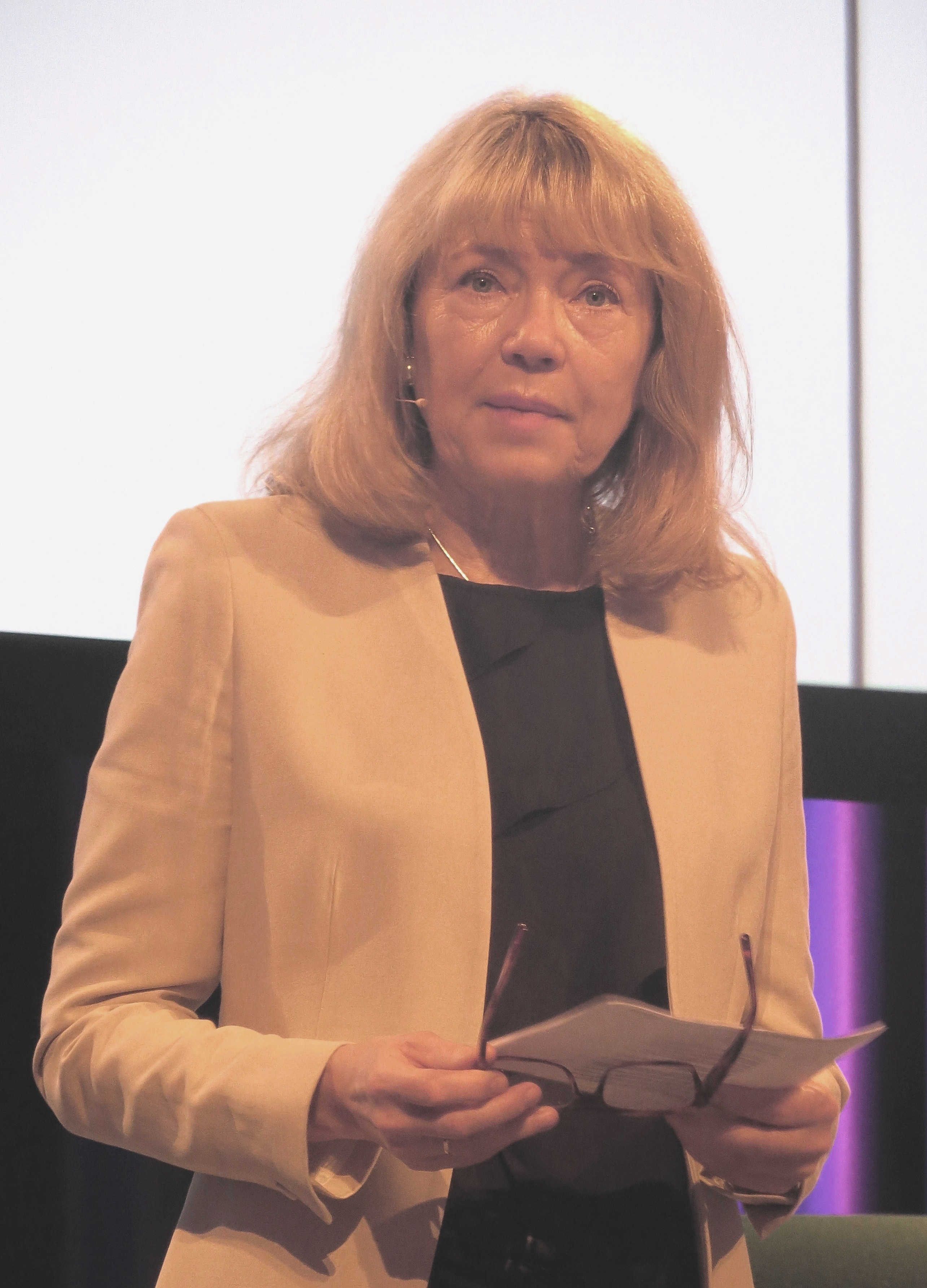 Photo taken at Lerchendalskonferansen 2013, a conference on innovation in Trondheim, Norway. Eva Bratholm is a ,ongstanding news anchor of NRK tv.